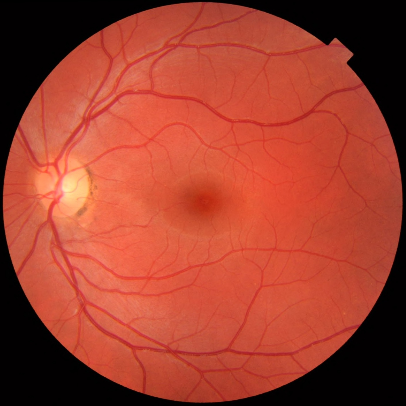 Fundus photograph of the left eye, showing a fundus with no sign of disease or pathology. It is seen from front so that left in each image is to the person's right. The gaze is into the camera, so the macula is in the center of the image, and the optic disk is located towards the nose (left in image). The optic disk has some pigmentation at the perimeter of the lateral side, which is considered non-pathological. Veins are darker and slightly wider than corresponding arteries. Major nerve pathways are seen as white striped patterns radiating from the optic disk. Photo is taken at Gävle Hospital in Sweden in 2012 on a healthy 25-year old male volunteer.